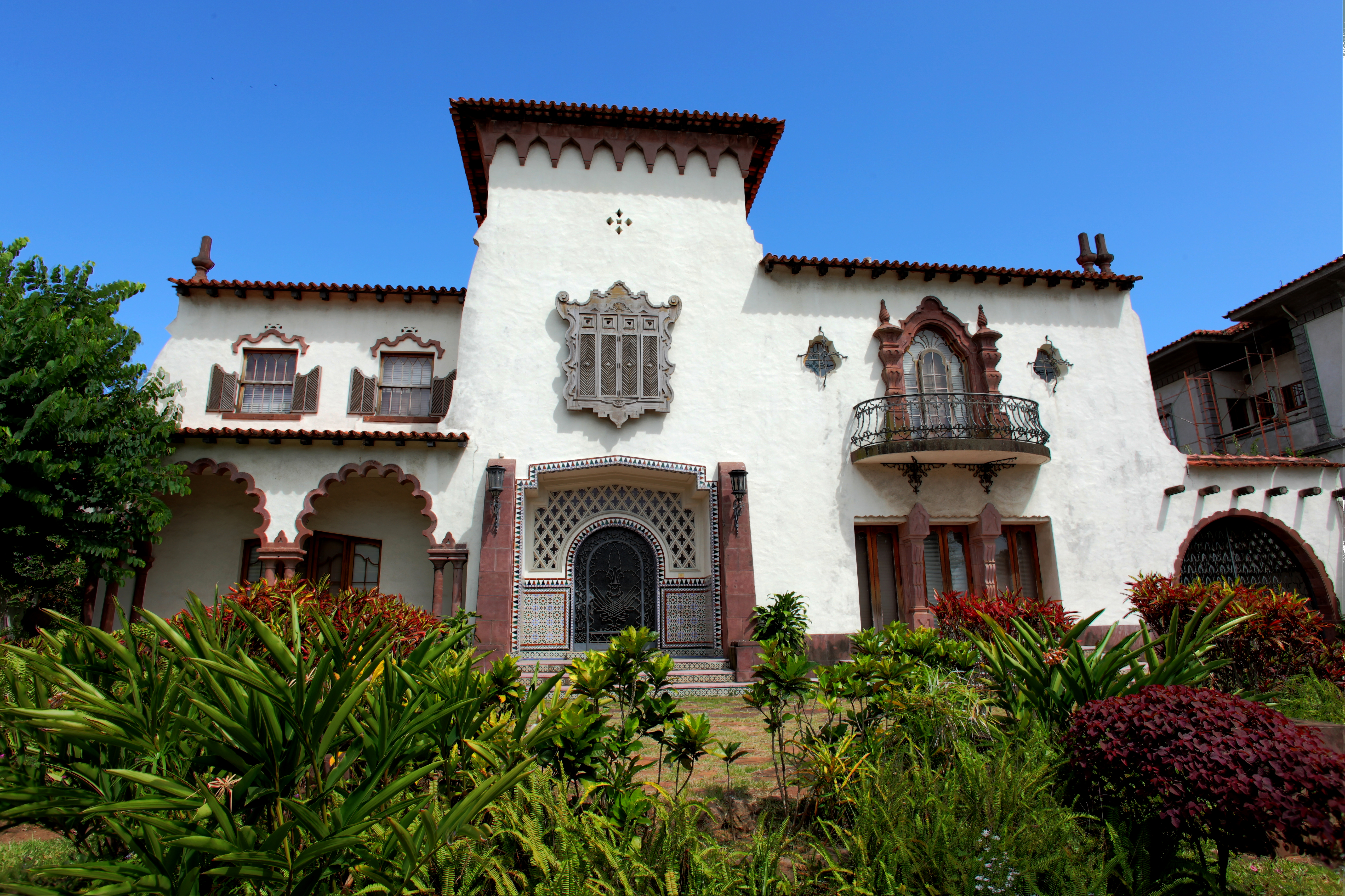 Portuguese colonial residence, Maputo, Mozambique